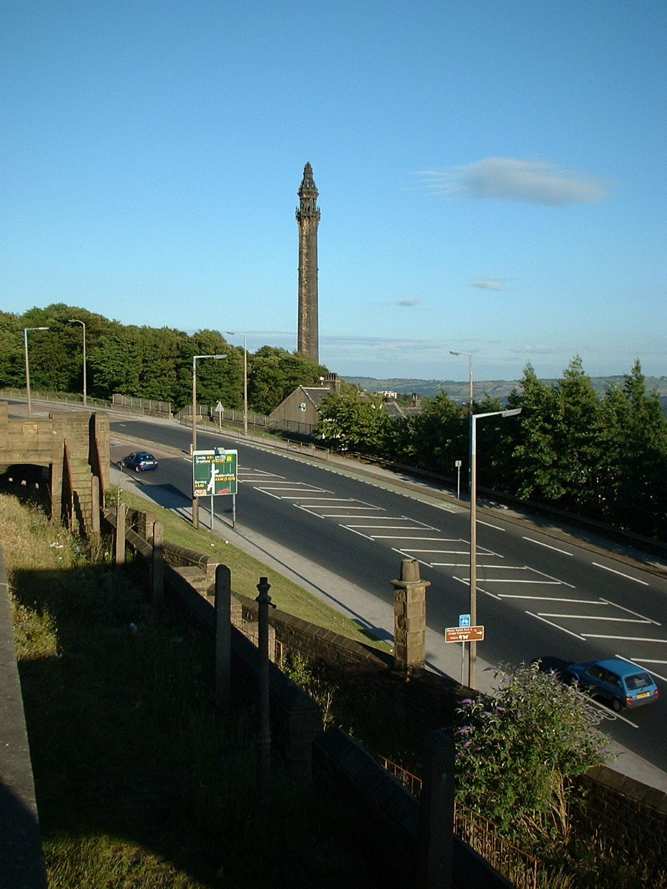 Wainhouse Tower from Wainhouse Terrace